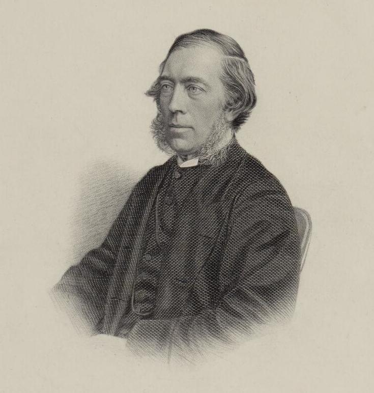 A portrait from the Welsh Portrait Collection at the National Library of Wales. Depicted person: J. Stuart Russell – British theologian